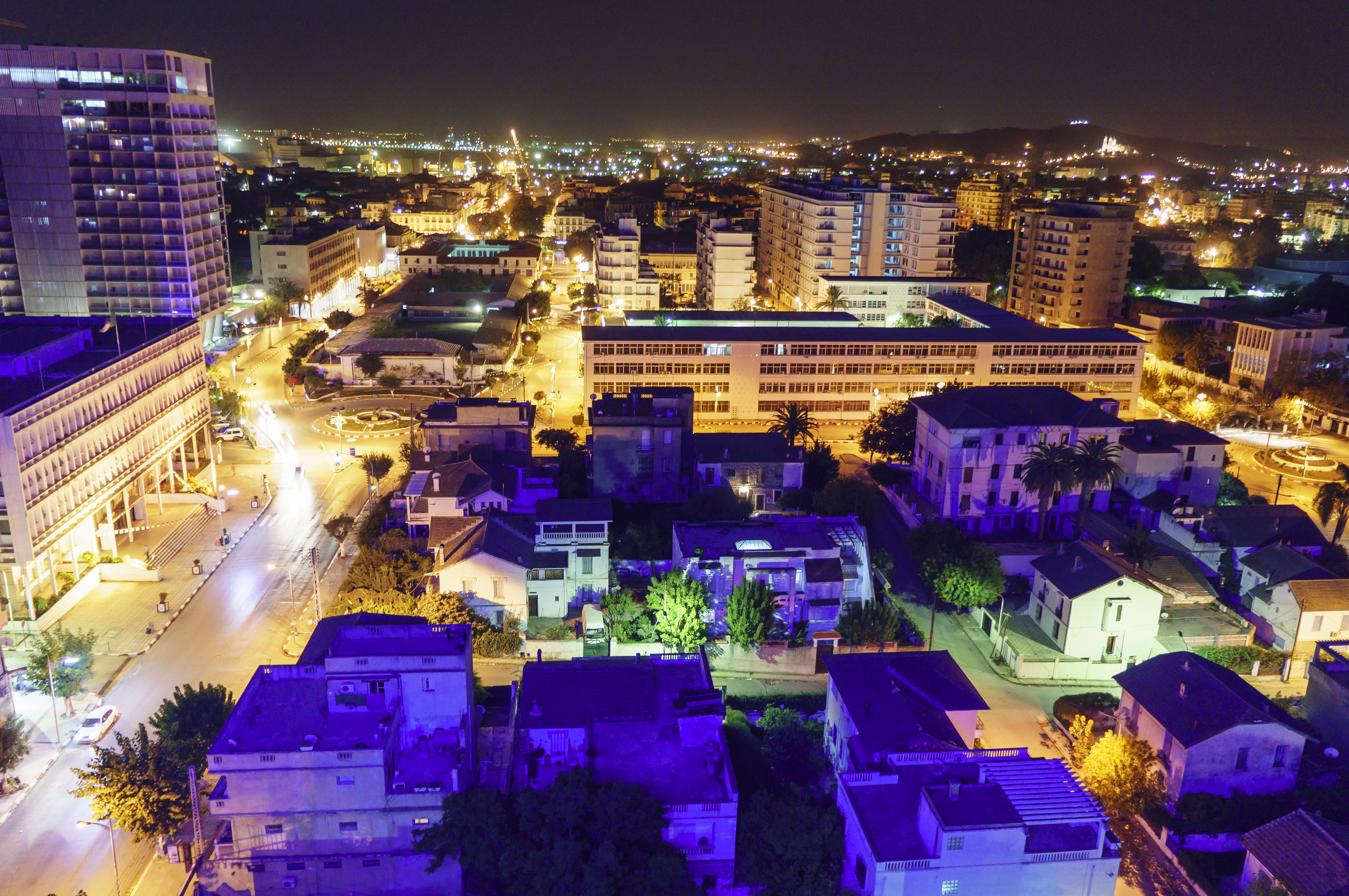 Annaba from my hotel roof